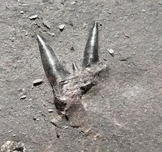 Summary Description Orthacanthus tooth from Westphalian Shale at Whitehaven, Cumbria. Source: orthacanthustooth.jpg Date: June 22, 2008 Author: Charles Paxton Permission: (Reusing this image) You are free to use, distribute and modify the file as long as you attribute its author and cite the article in which it originally appeared in Wikipedia. This image is free to use under terms of the GFDL In short: you are free to use, distribute and modify the file as long as you attribute its author and source article.